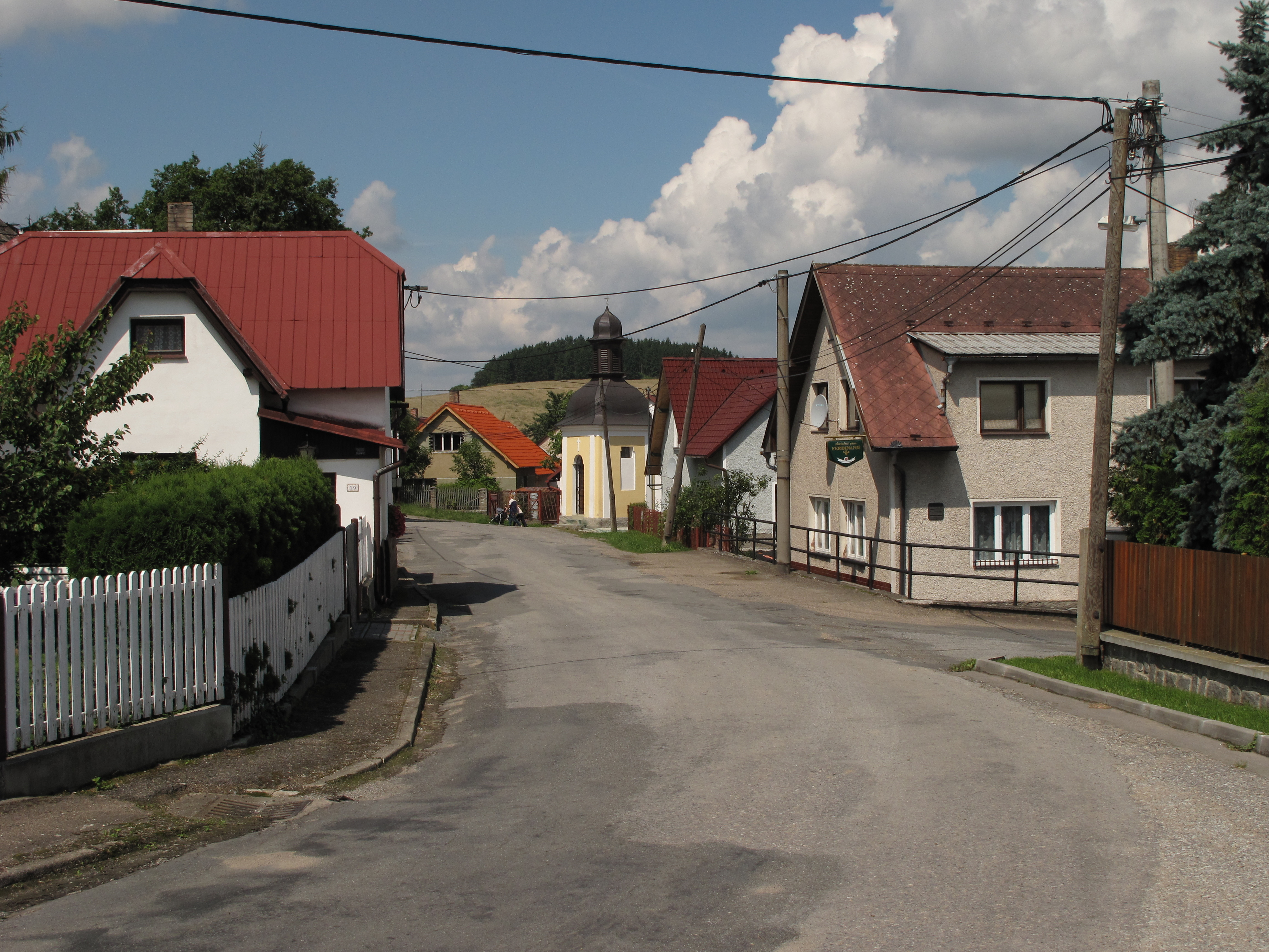 This photograph was taken within the scope of the second year of the 'Czech Municipalities Photographs' grant.